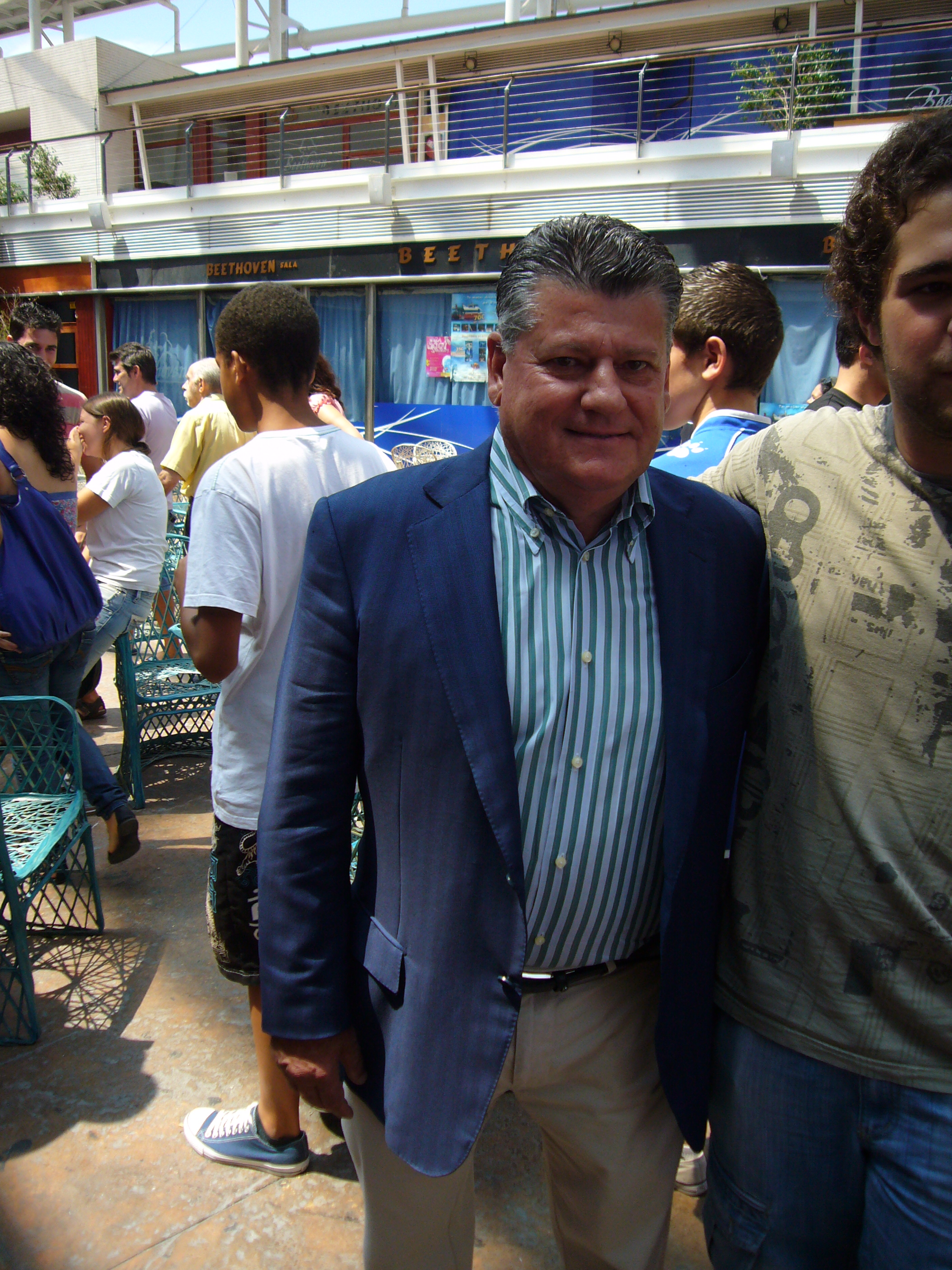 Valentín Botella in August 2010 on the presentation of Nelson Haedo Valdez as a player for Hércules.